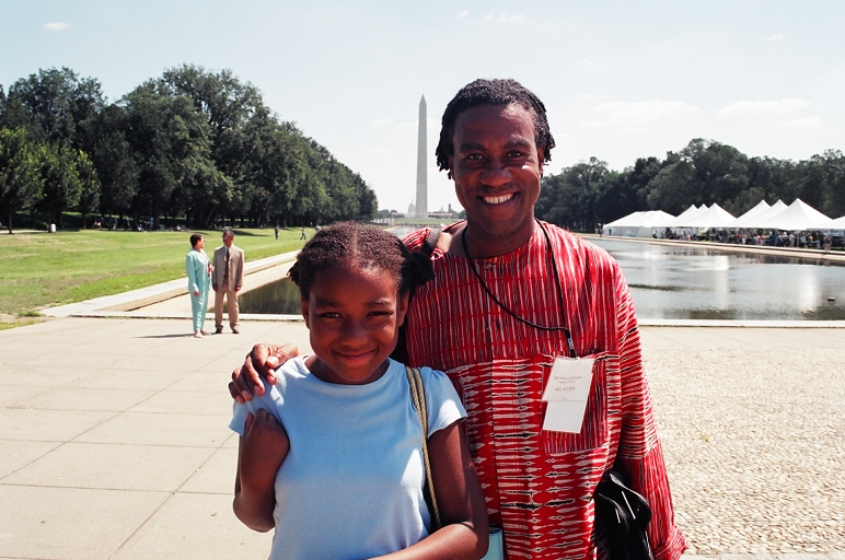 Assemblance Before the 40th Anniversary of the 1963 Civil Rights March on Washington Celebration Rally on the day after the unveiling of the Dr. Martin Luther King, Jr. "I HAVE A DREAM" commemorative plaque at the Lincoln Memorial / Reflecting Pool on the National Mall in Washington DC on Saturday, 23 August 2003 by Elvert Barnes Protest Photography Damu Smith, Founder, Black Voices for Peace and daughter 40th MOW / DC Film Roll #3/14 Learn more about this event via DC Host Committee at Elvert Barnes Anniversary Celebrations of the 1963 MARCH ON WASHINGTON docu-project at